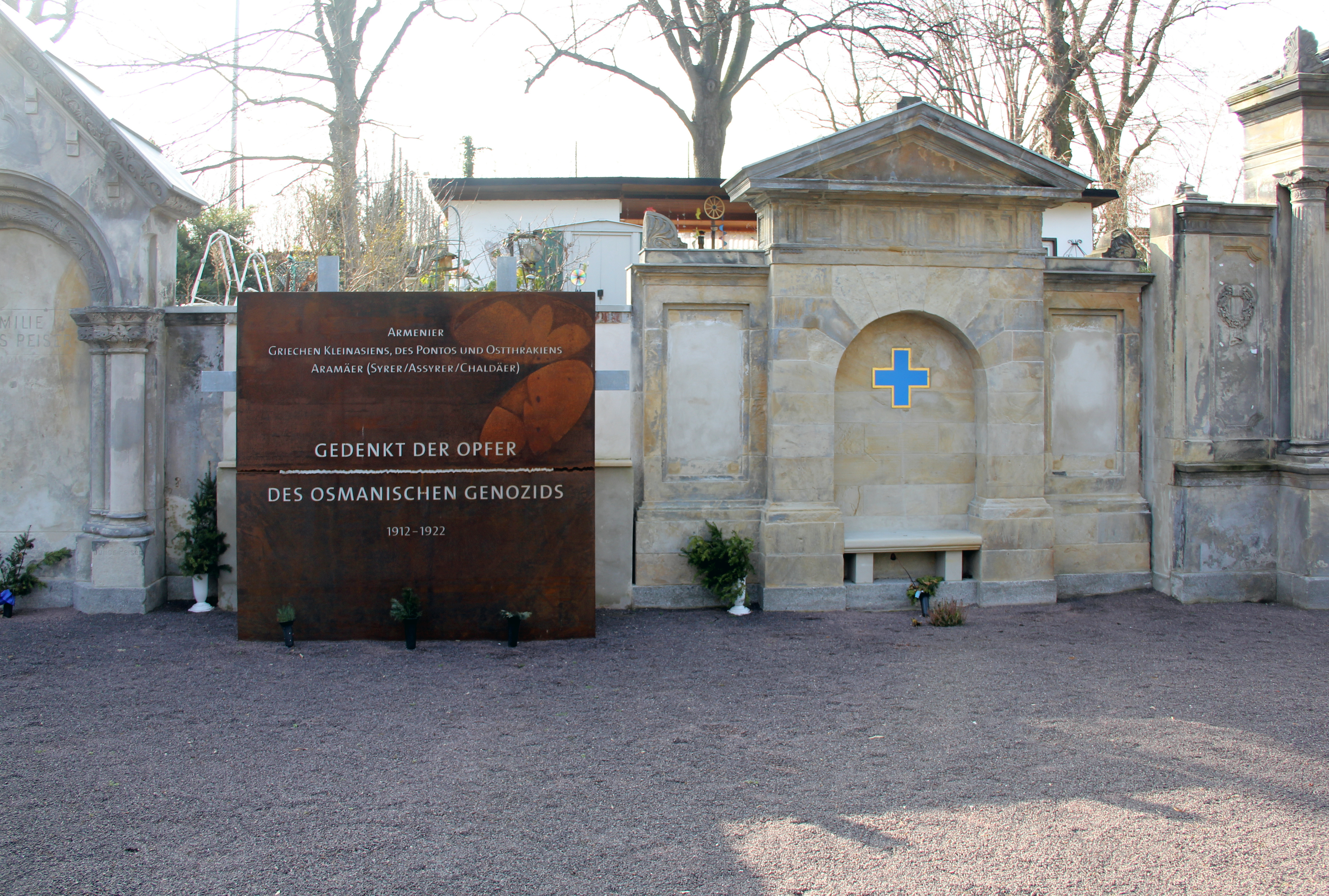 Memorial plaque, Osmanischer Genozid, Fürstenbrunner Weg 67, Berlin-Westend, Deutschland